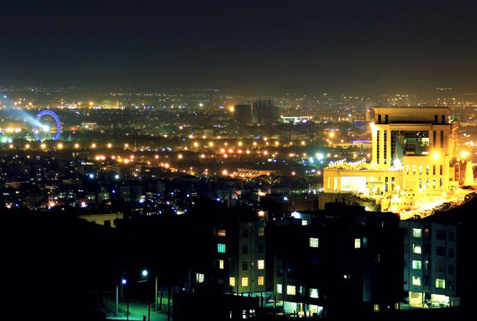 Mashhad at night. This is a cropped version of File:Mashhad City at night.jpg.